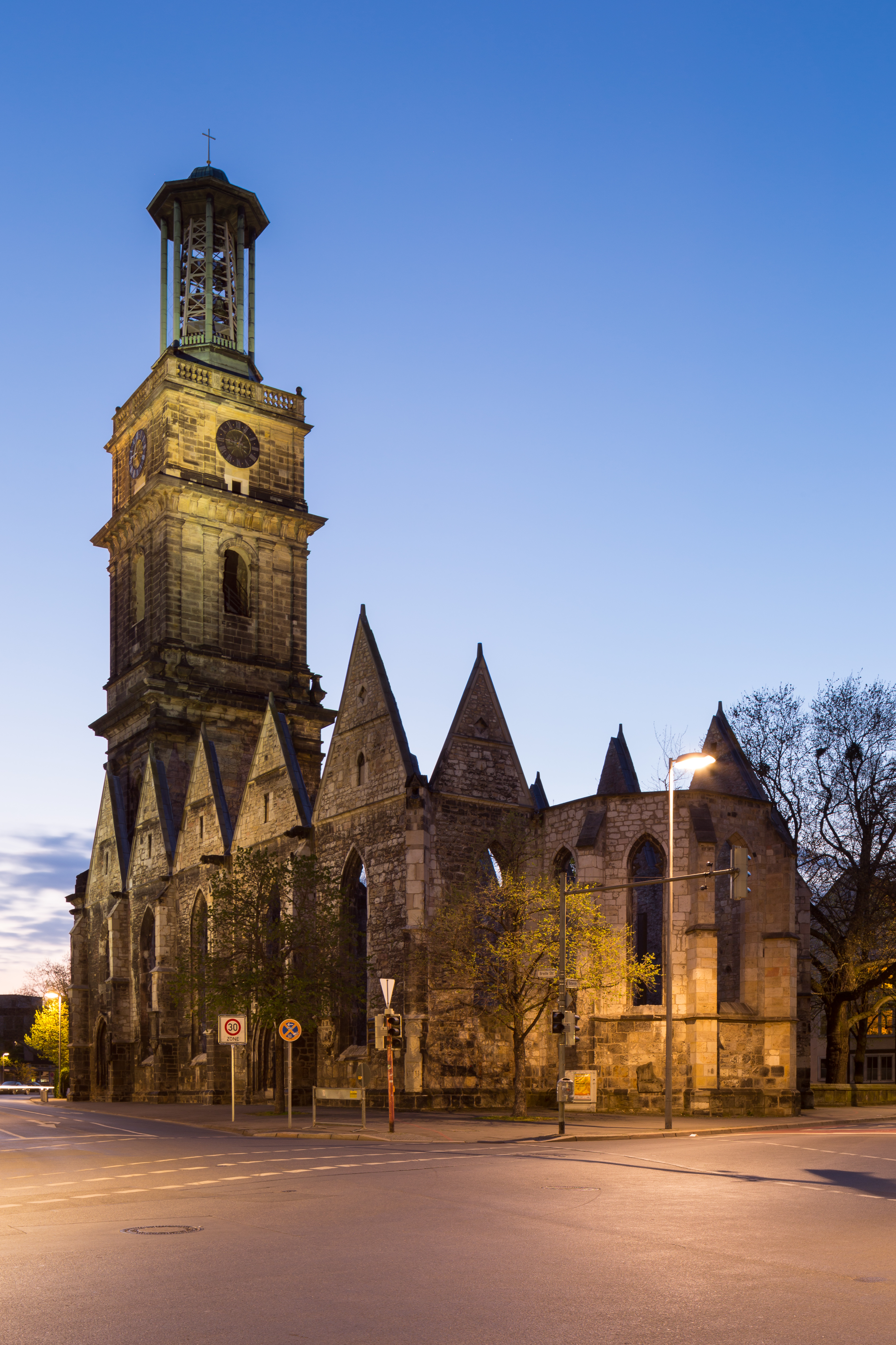 Ruin of Aegidienkirche church, serving as memorial, located at Breite Strasse and Osterstrasse in Mitte quarter of Hannover, Germany.